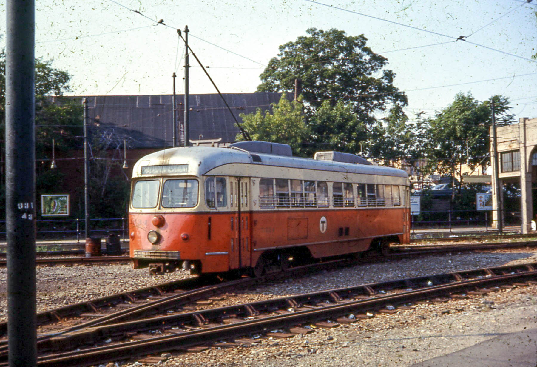 A PCC streetcar at Mattapan Terminal in 1967